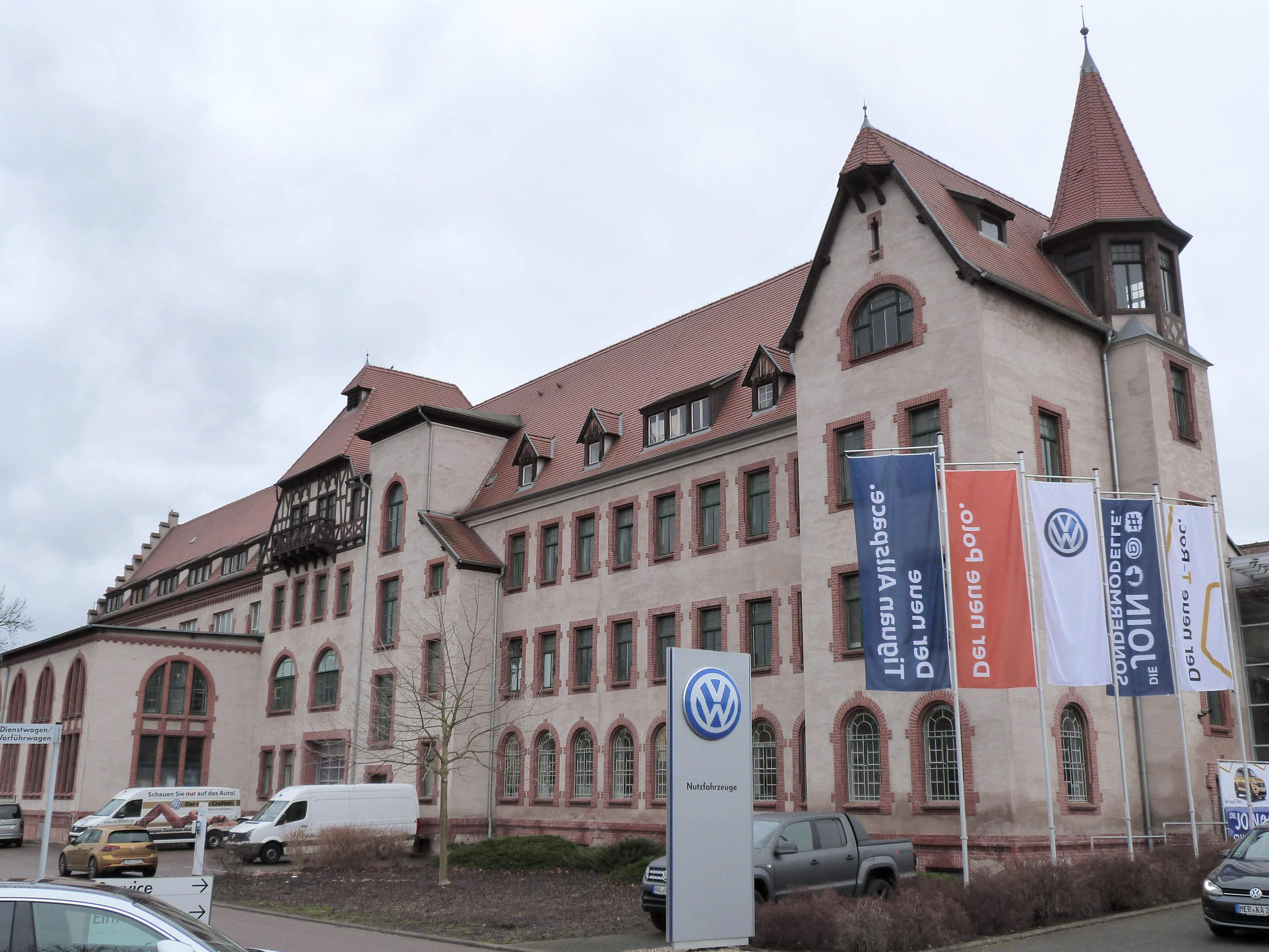 Former power plant from 1901, today car dealer, Holzplatz No. 8, Halle (Saale)